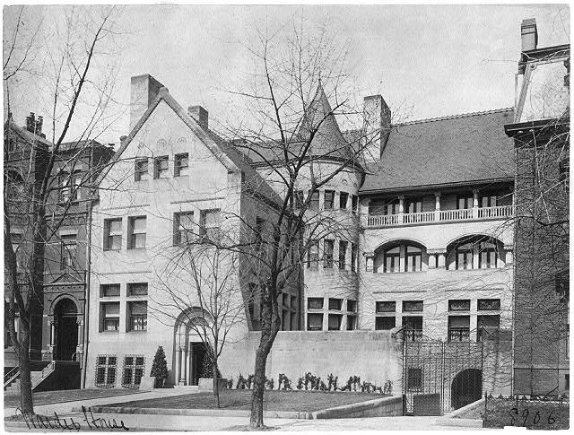 Benjamin H. Warder House, 1515 K Street Northwest, Washington, D.C.